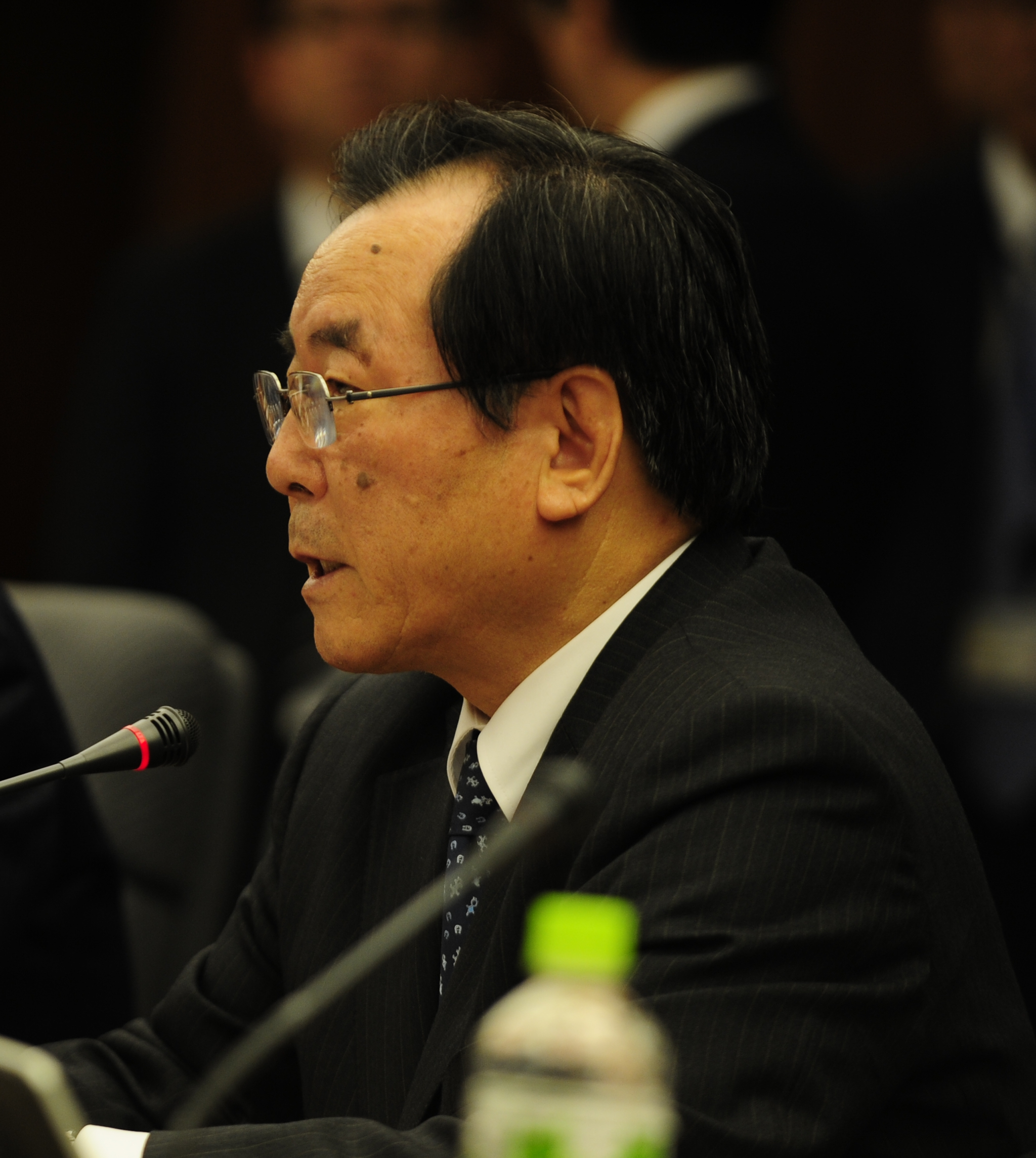 Leon Panetta, Secretary of Defense, met Yasuo Ichikawa, Minister of Defense, in Tōkyō Metropolis on October 25, 2011.